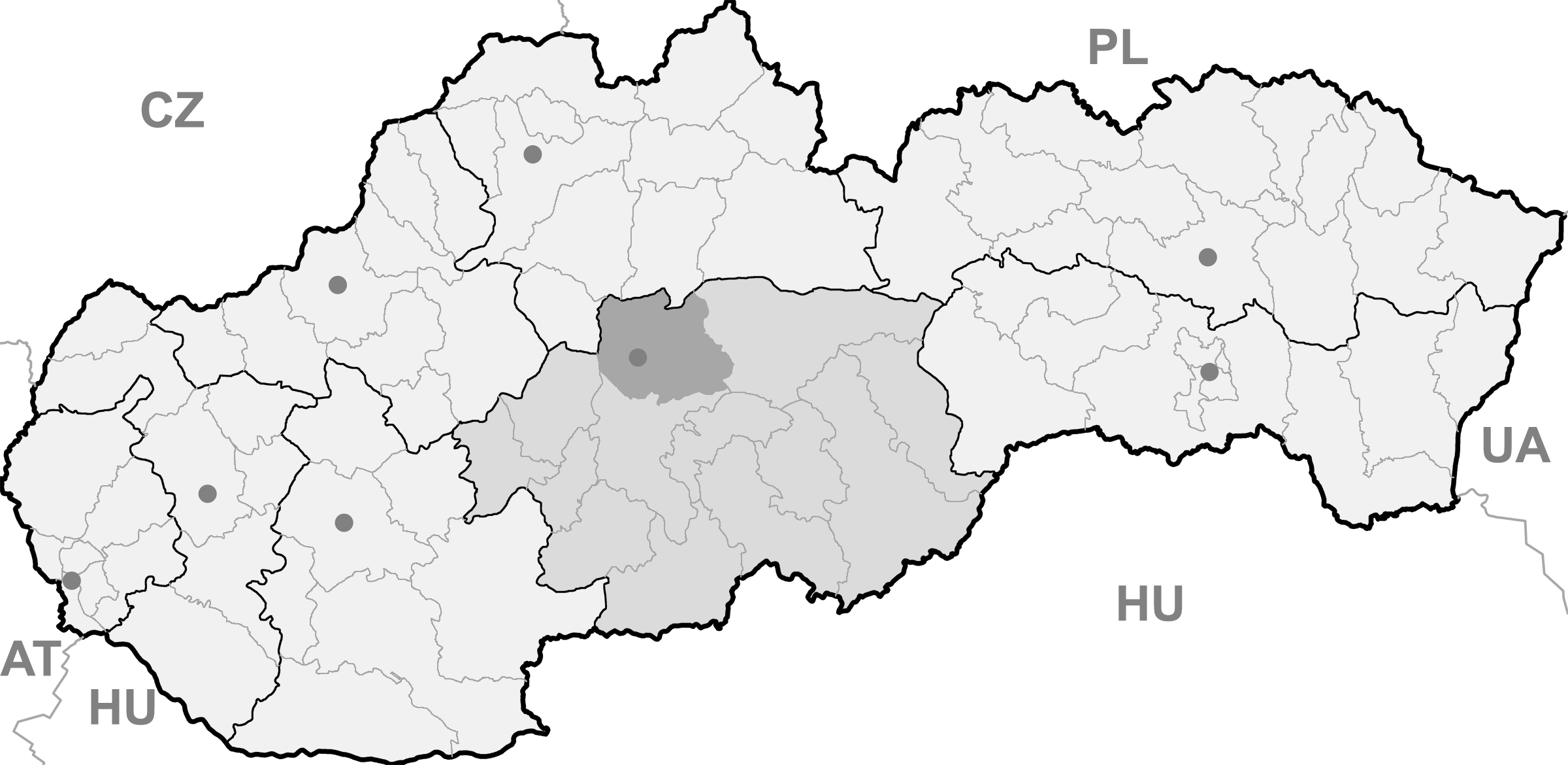 Map of Slovakia, Banská Bystrica district and Banská Bystrica region highlighted